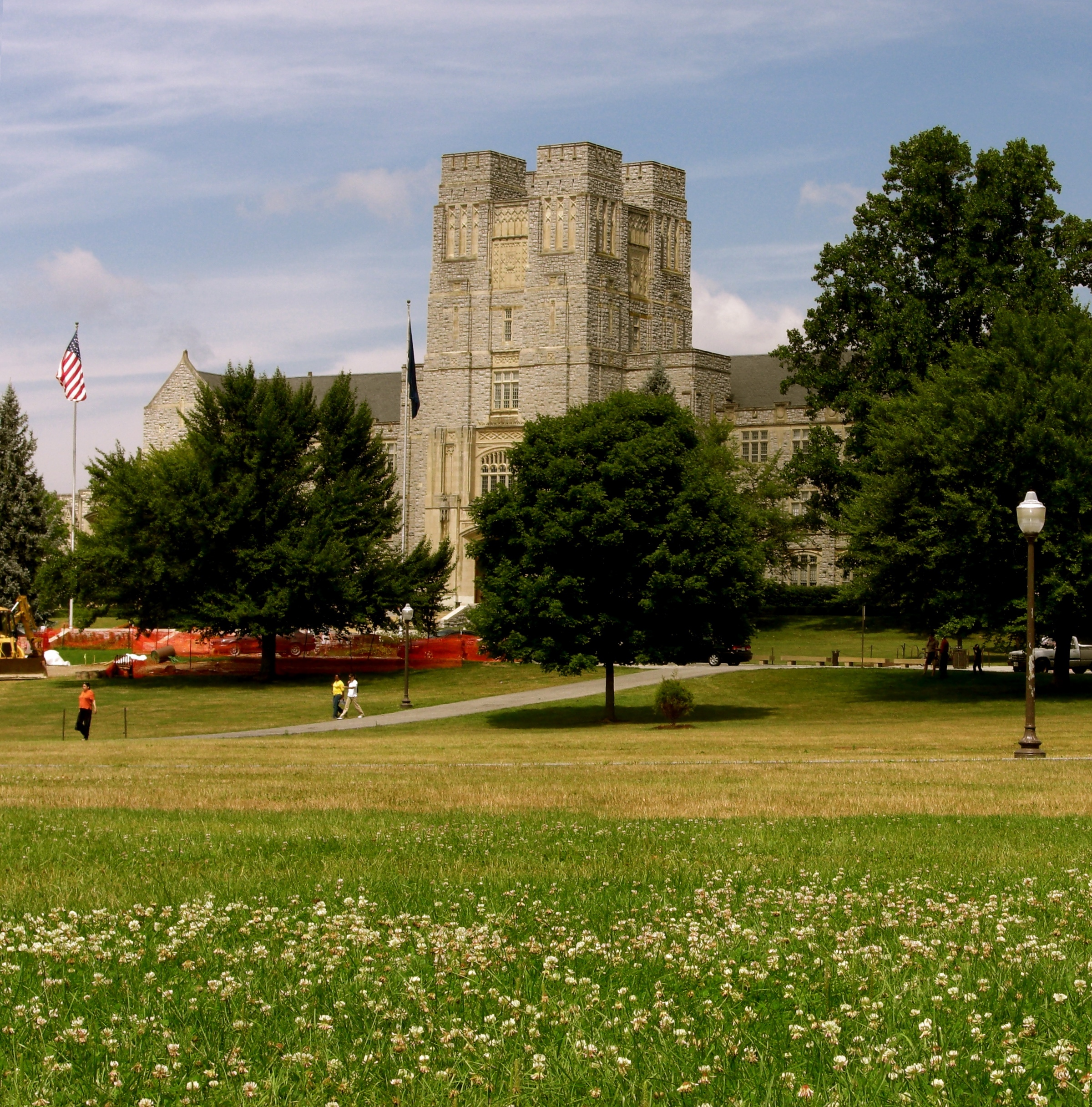 Burruss Hall from the drillfield